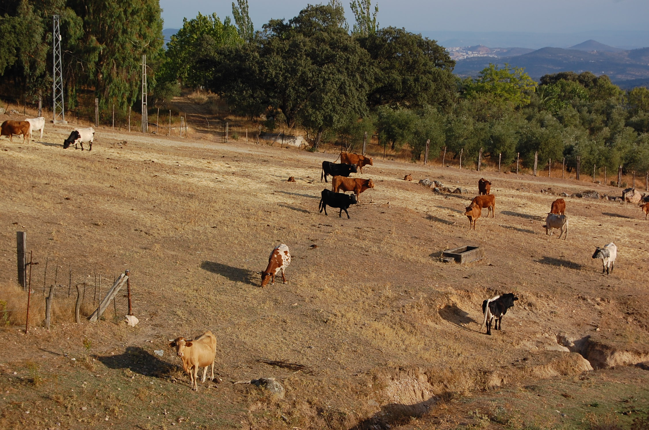 Walon: Vatches d' Andalouzeye